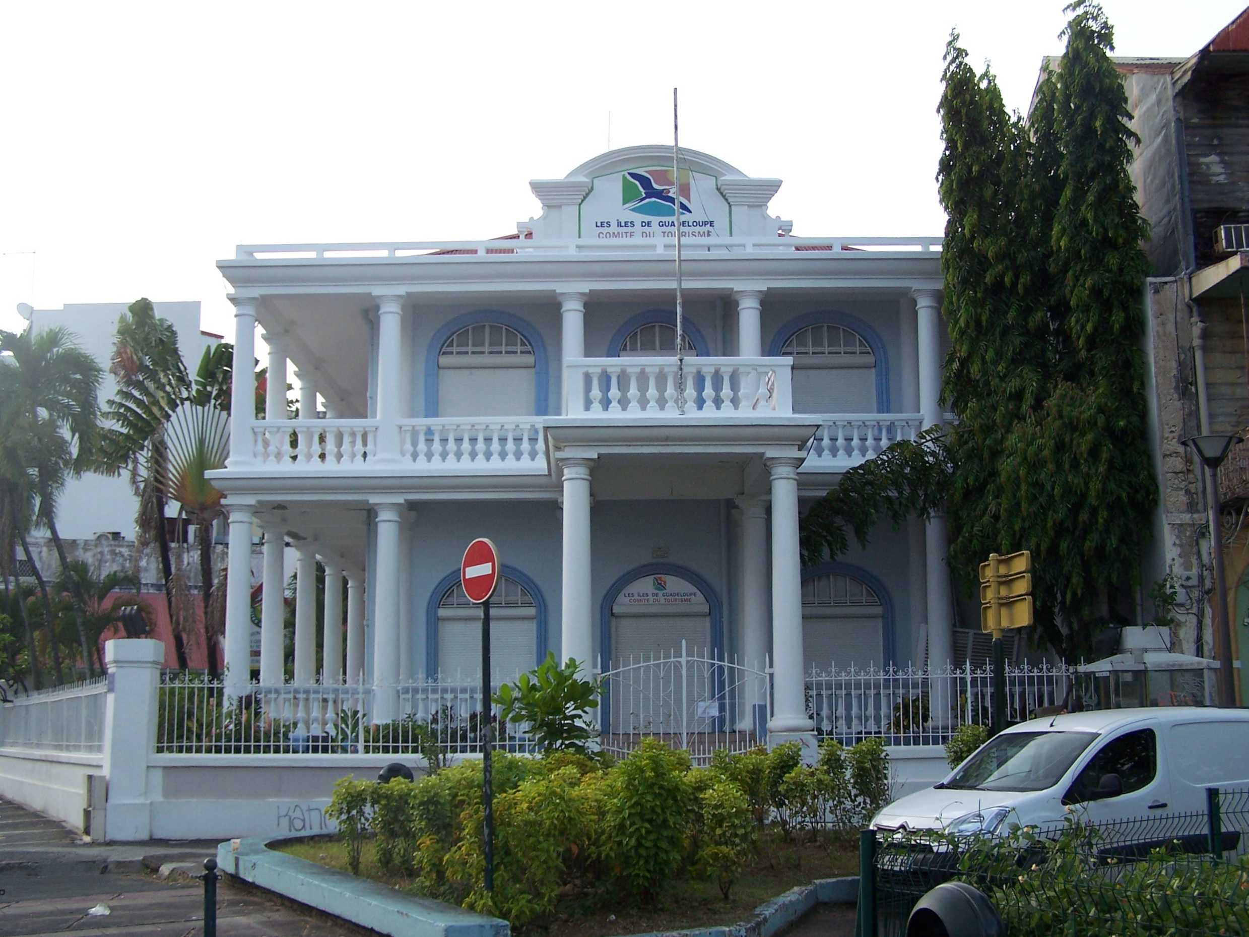 Office du Tourisme de Guadeloupe à Pointe-à-Pitre sur la place de la Victoire